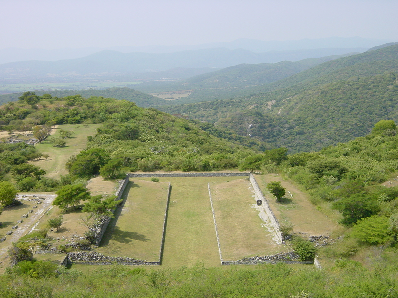 made by myself as tourist with digicam 画像:800px-Maxico xochicalco ballgame.jpg